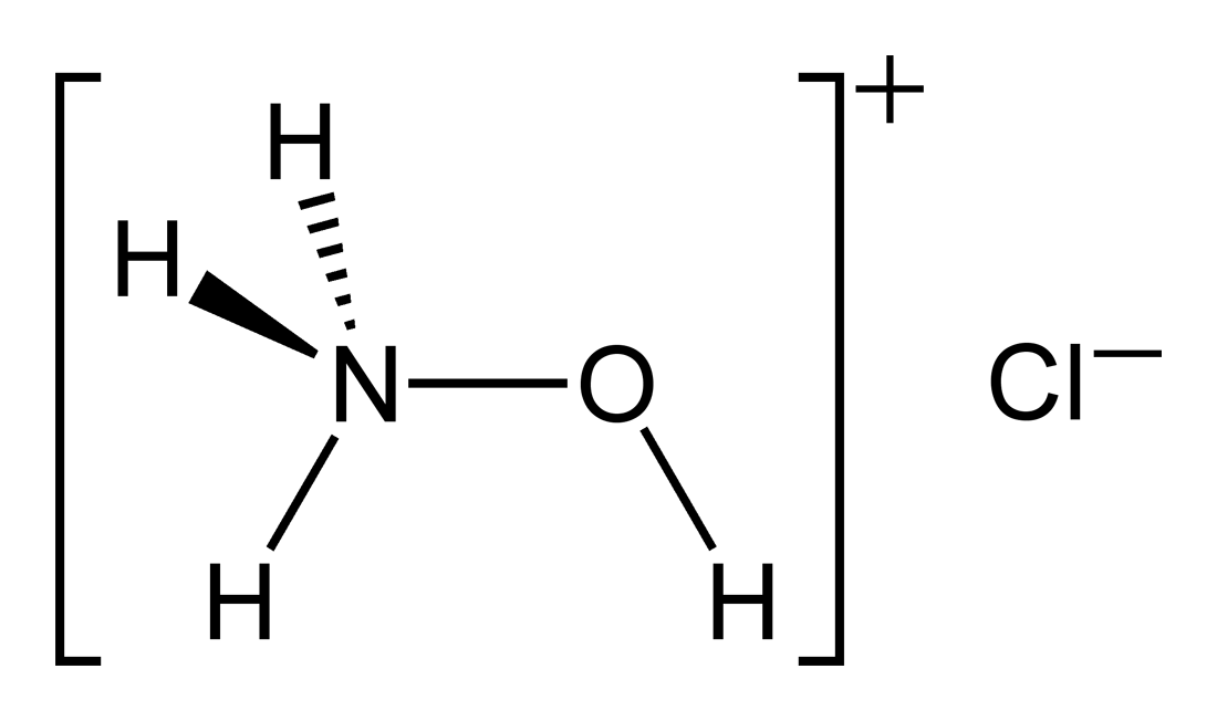 Structures of the ions in hydroxylammonium chloride, [NH3OH]+Cl−.